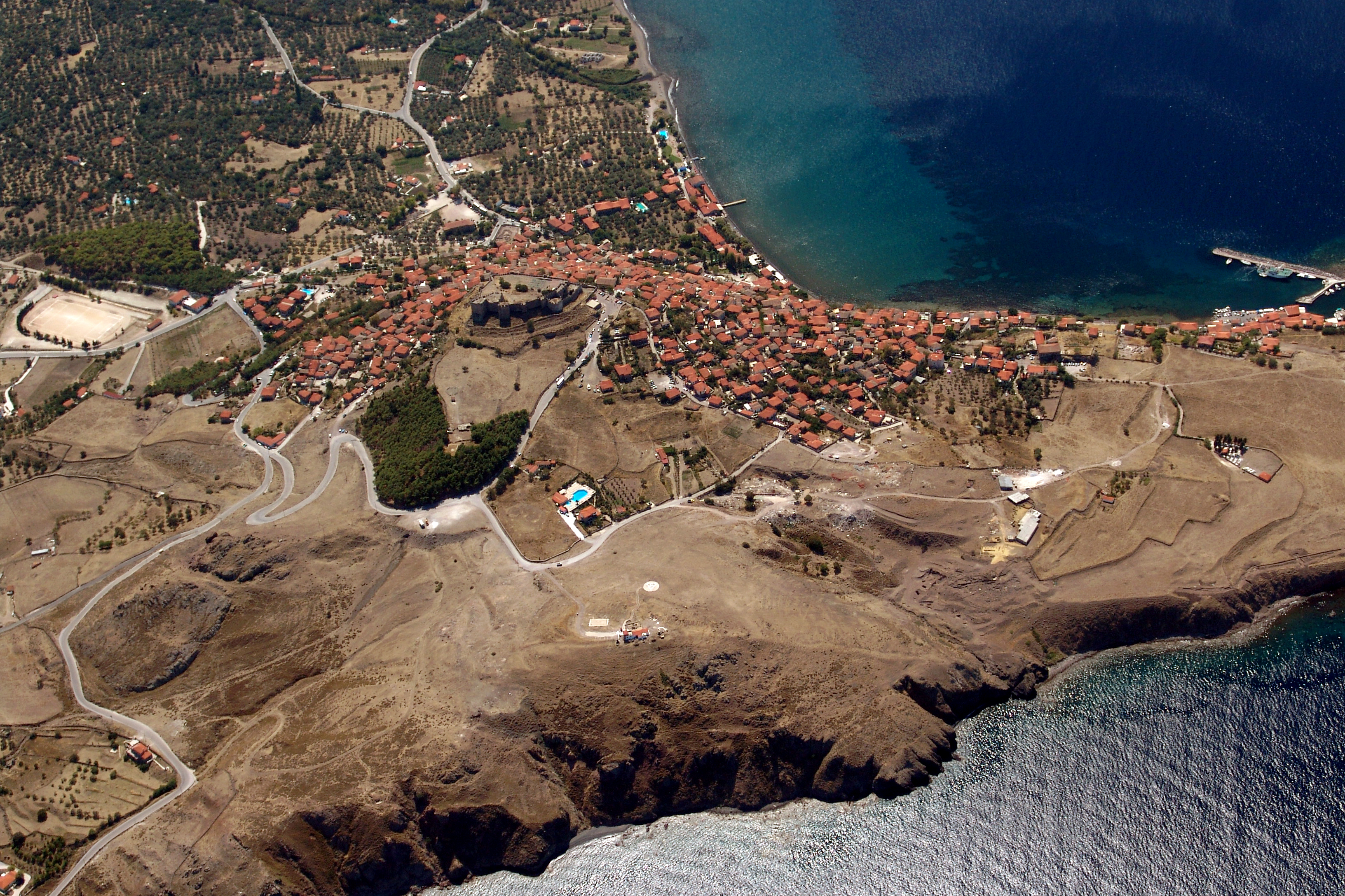 An aerial photo of Molyvos in 2005. Photo taken by me. Costis STEFANOU